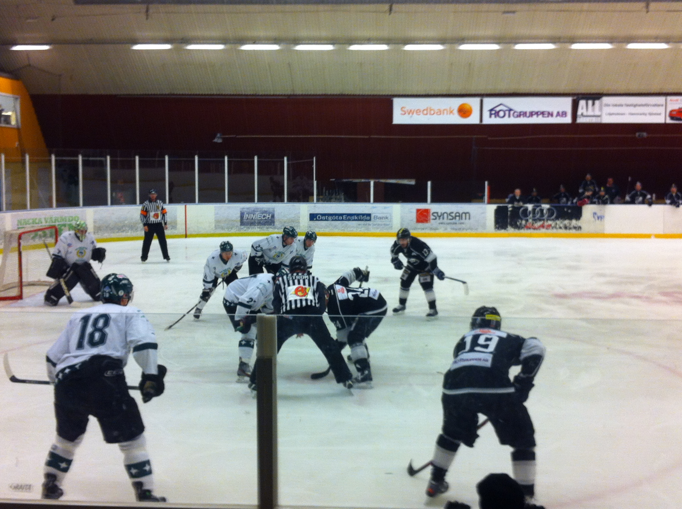 Bajen Fans IF vs Nacka HK in the 2013 qualification series to Division 1 of Swedish ice hockey. Playing in Nacka ishall.